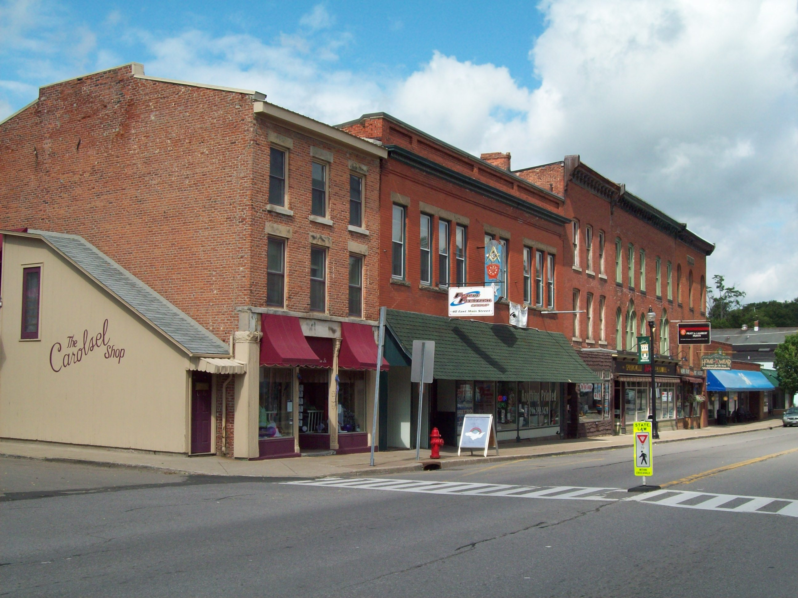 East Main-Mechanic Streets Historic District, June 2009